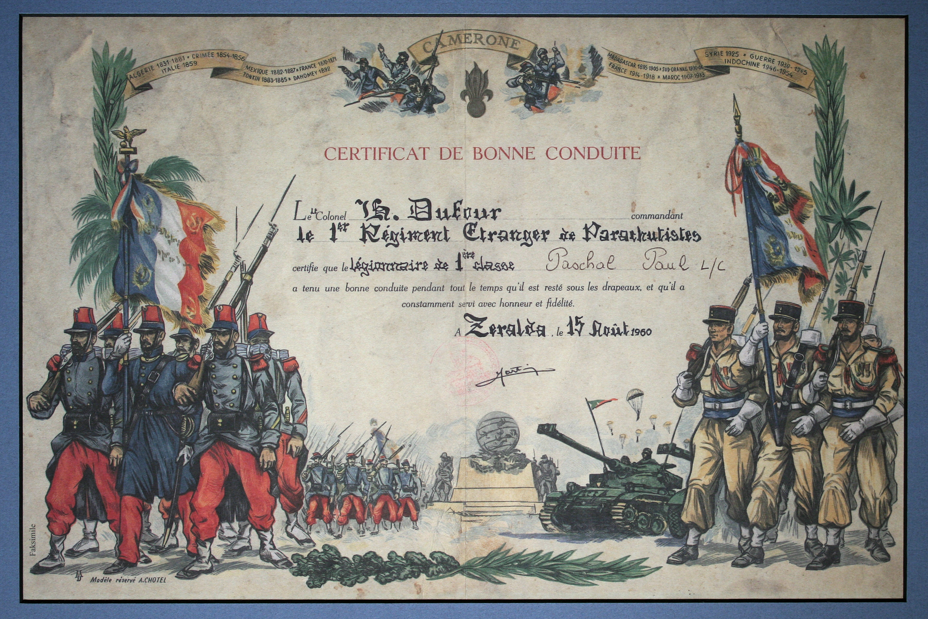 Certificate of Good Conduct Lieutenant Colonel H. Dufour commanding the First Foreign Parachute Regiment certifies that Legionnaire First Class Paul Paschal L/C displayed good conduct during the entire time that he has remained under the colors, and that he has consistently served with honor and fidelity. At Zeralda, August 15, 1960